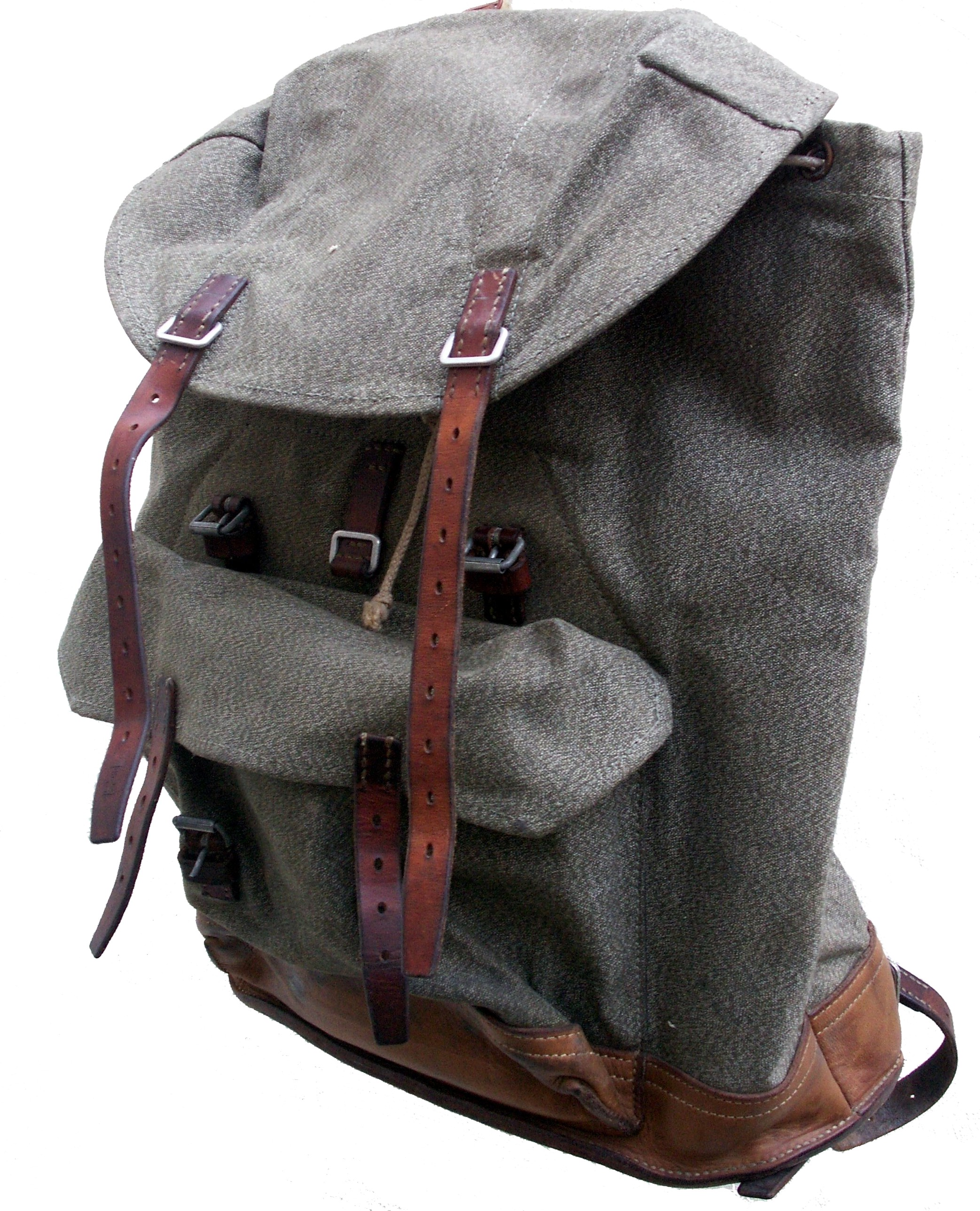 Backpack of the Military of Switzerland, probably produced in the 1960s. Camouflage, very robust, soil and belts made of leather. When impregnated fabric sail cloth was used. Height 55 cm extendable to 75 cm, width 40 cm, depth approx 25 cm. Empty weight about 2.8 kg. Front view.